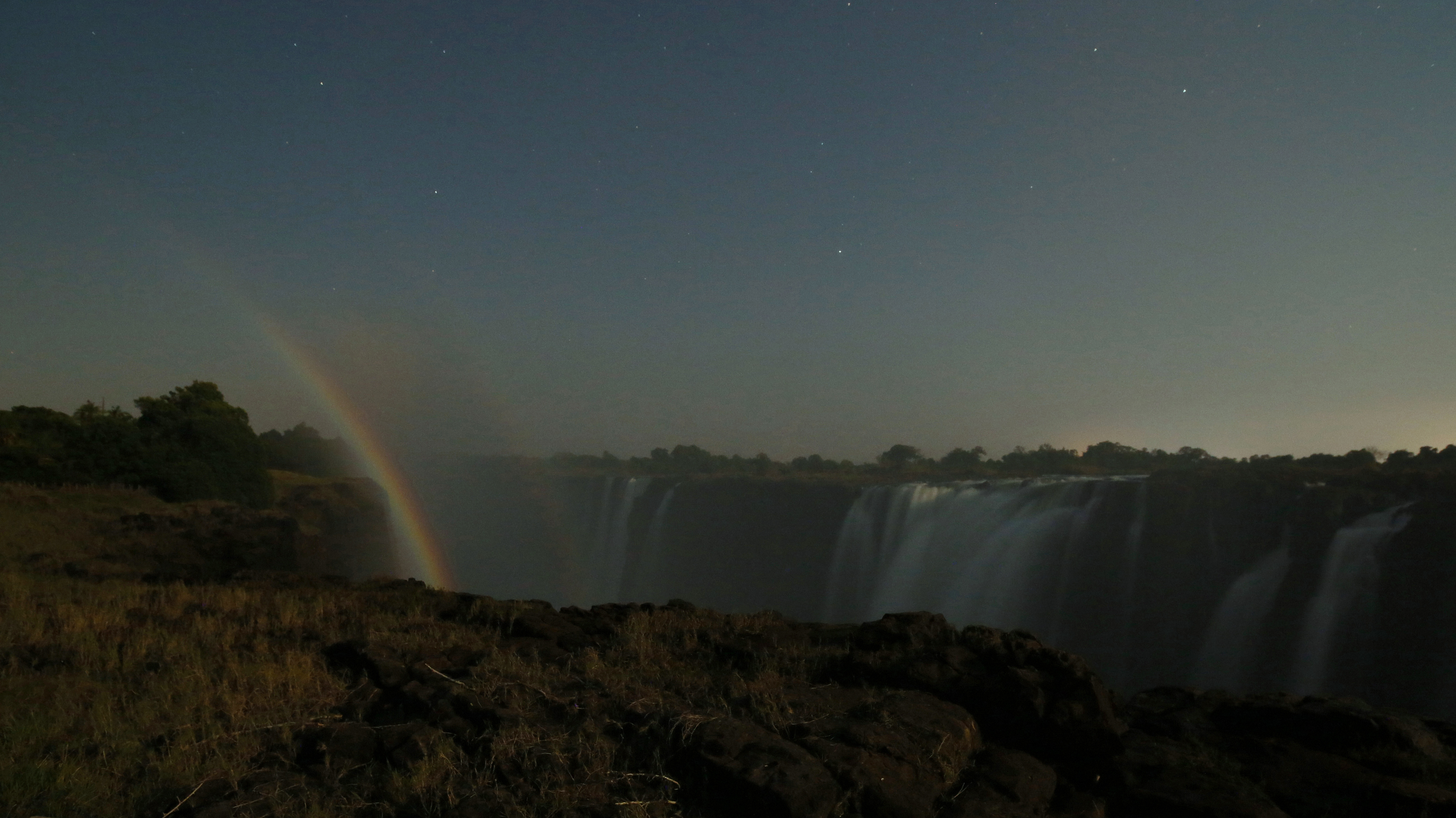 Lunar rainbow or moonbow at the Victoria Falls in Zimbabwe. (a little less dark, a little less reddish)